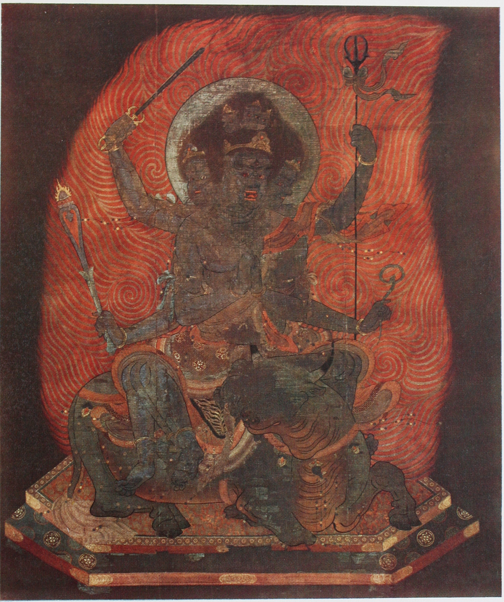 Daïitokumyouou (Yamantaka), one of Five Guardian Kings , Five hanging scrolls, color on silk, 153.0 × 128.8 cm (60.2 × 50.7 in) , Heian period, Tō-ji, Kyoto, Japan